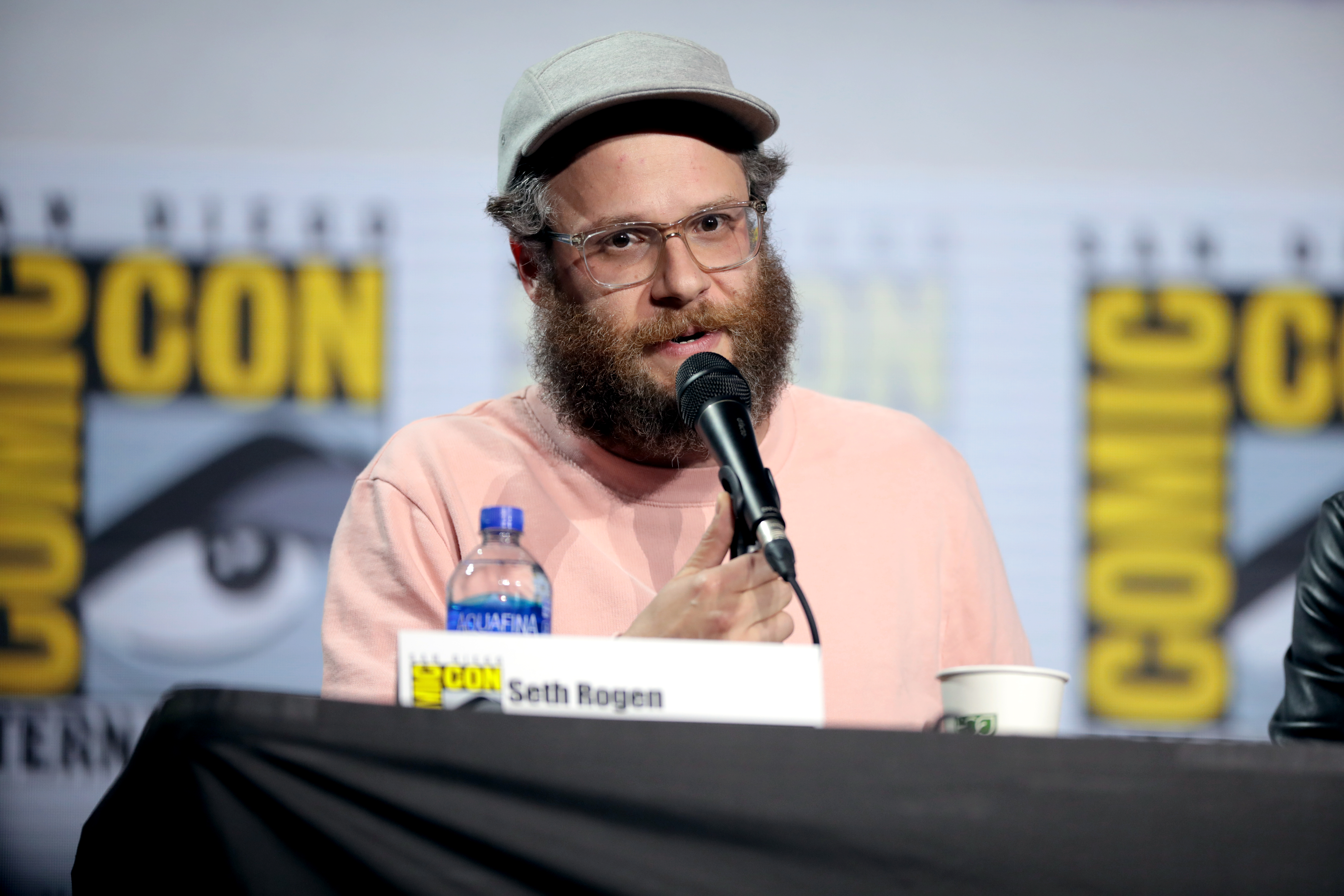 Seth Rogen speaking at the 2019 San Diego Comic Con International, for "Preacher", at the San Diego Convention Center in San Diego, California.